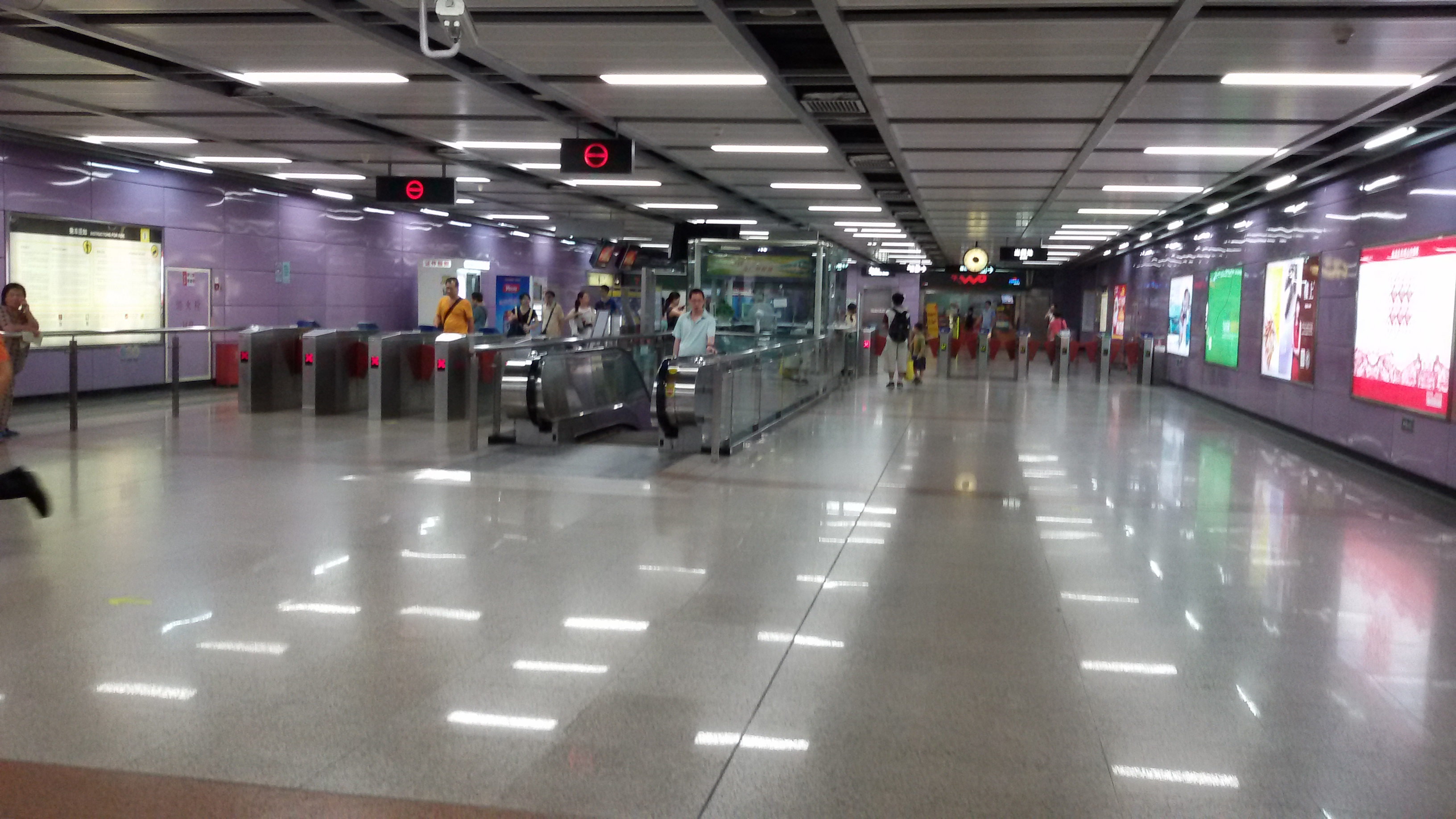 Station Concourse for Sun Yat-sen Memorial Hall Station, Guangzhou Metro. 粵語: 廣州地鐵紀念堂站嘅站廳